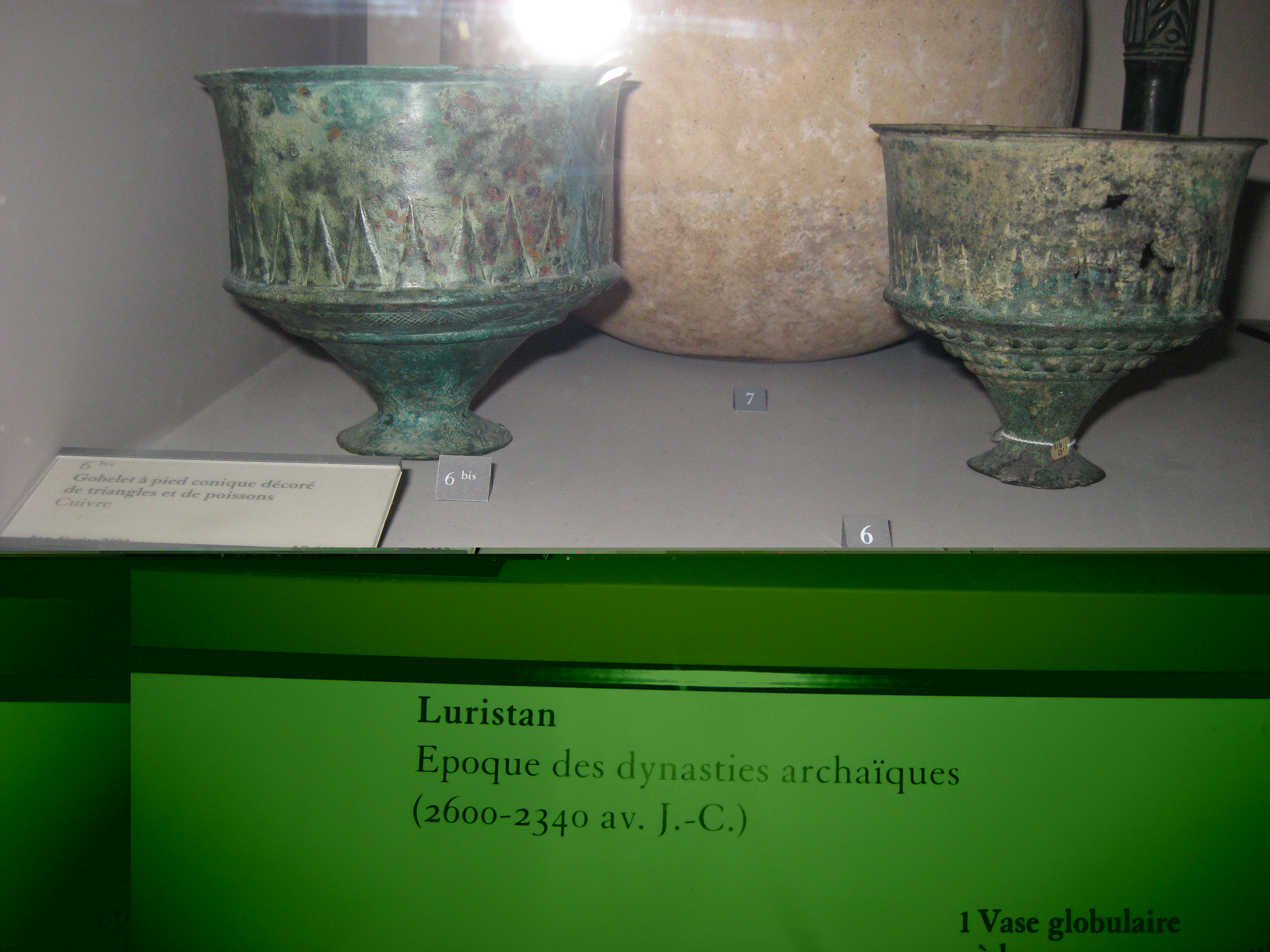 Mefragh Lorestan